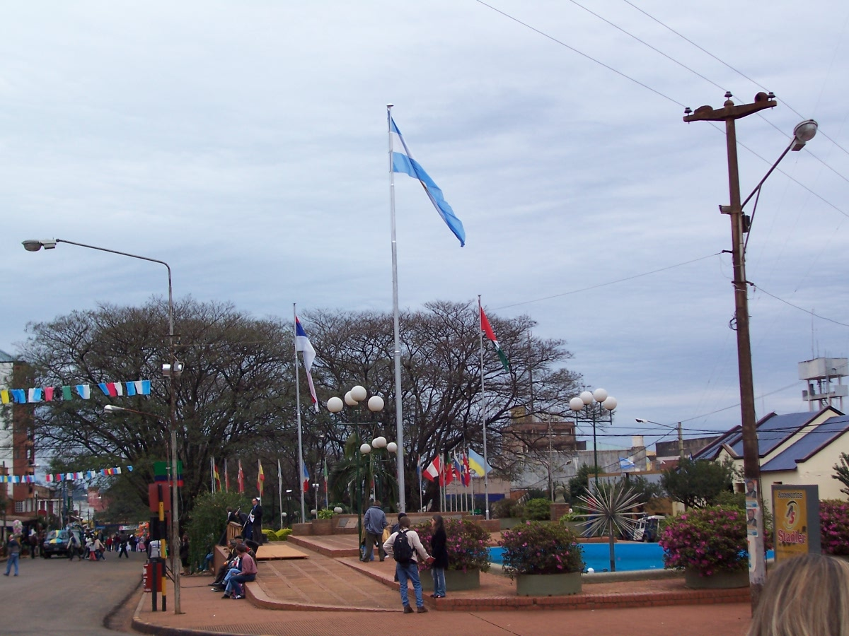 Picture of Oberá's downtown, Misiones Province in Argentina. The Misiones's Flag (left), Argentina's Flag (center) and Oberá's Flag (right), located on the main square of the city.